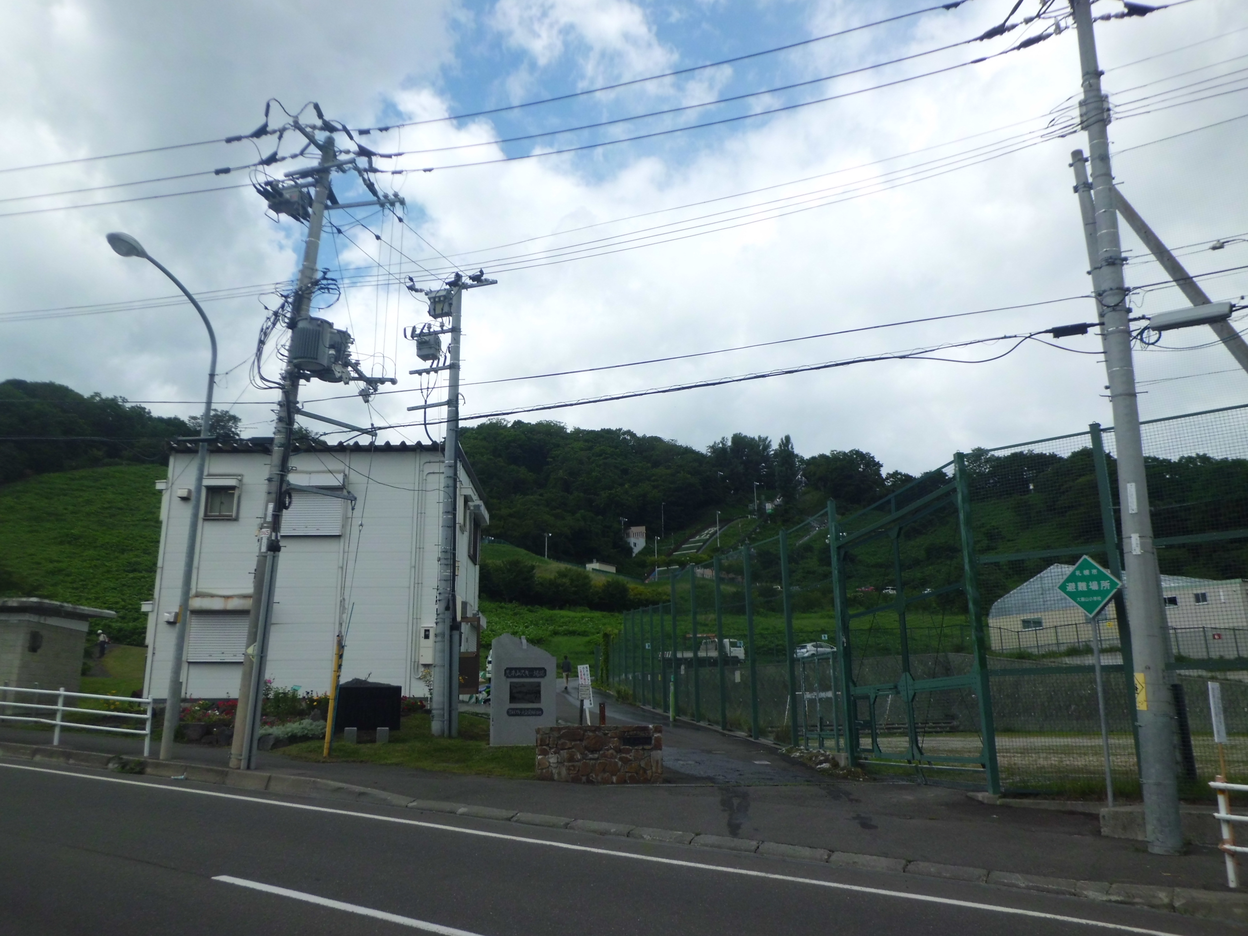 Mount Arai of Sapporo